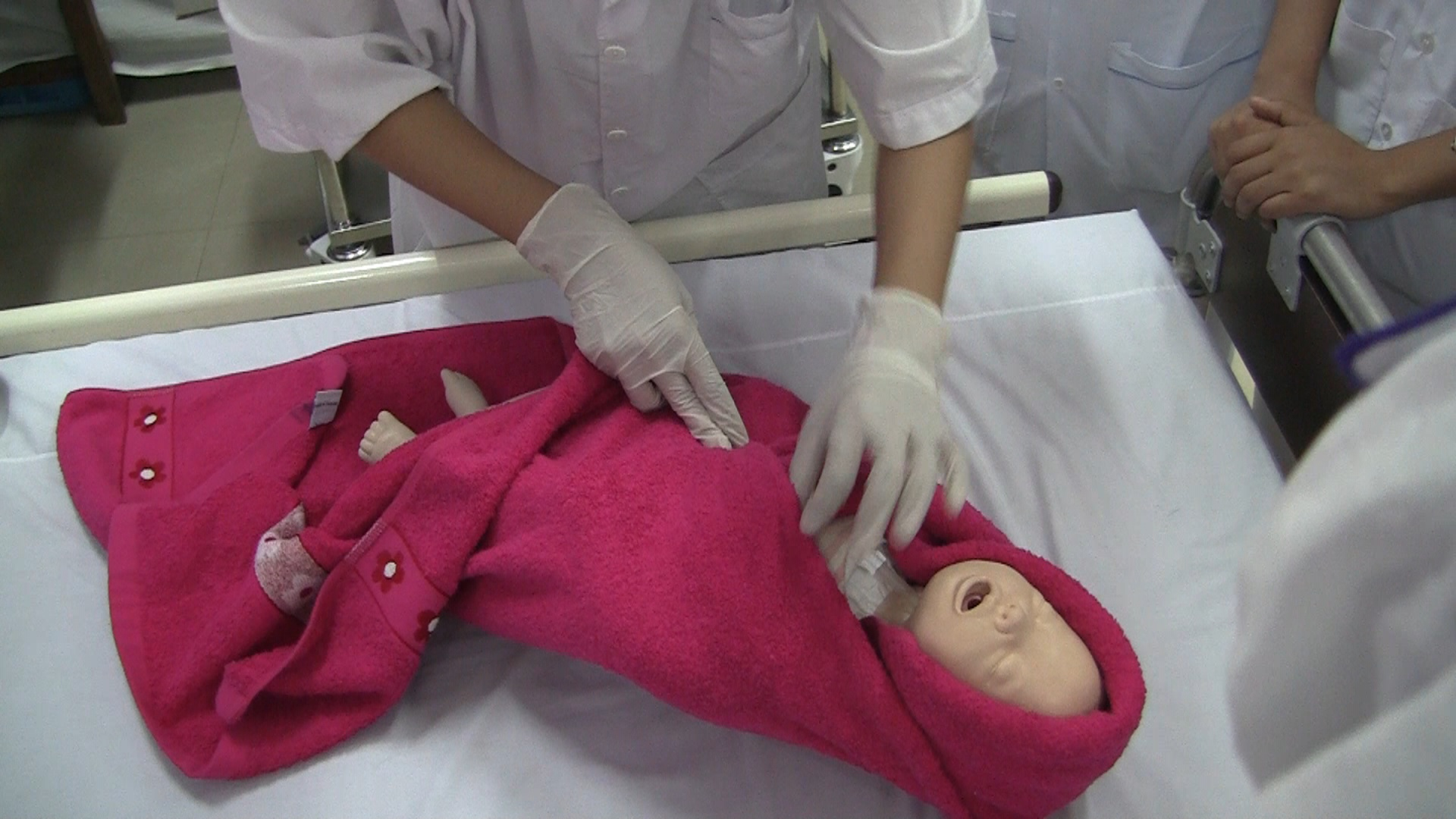 Australian-funded Cambodian Midwife Project at the Technical School for Medical Care in Phnom Penh. Photo: Christoffe Gargiulo